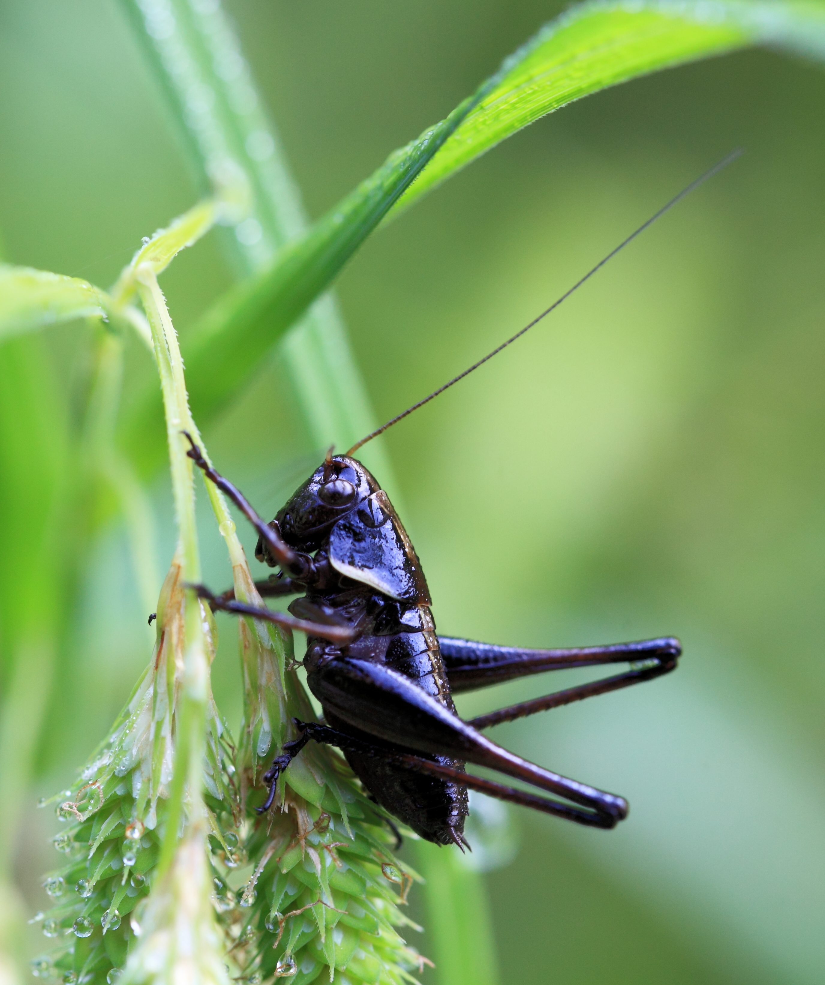 Kitamoto Nature Observation Park, Kitamoto-shi(city) Saitama-ken(Prefecture), Japan 埼玉県北本市(さいたまけん きたもとし) 北本自然観察公園(きたもとしぜんかんさつこうえん)